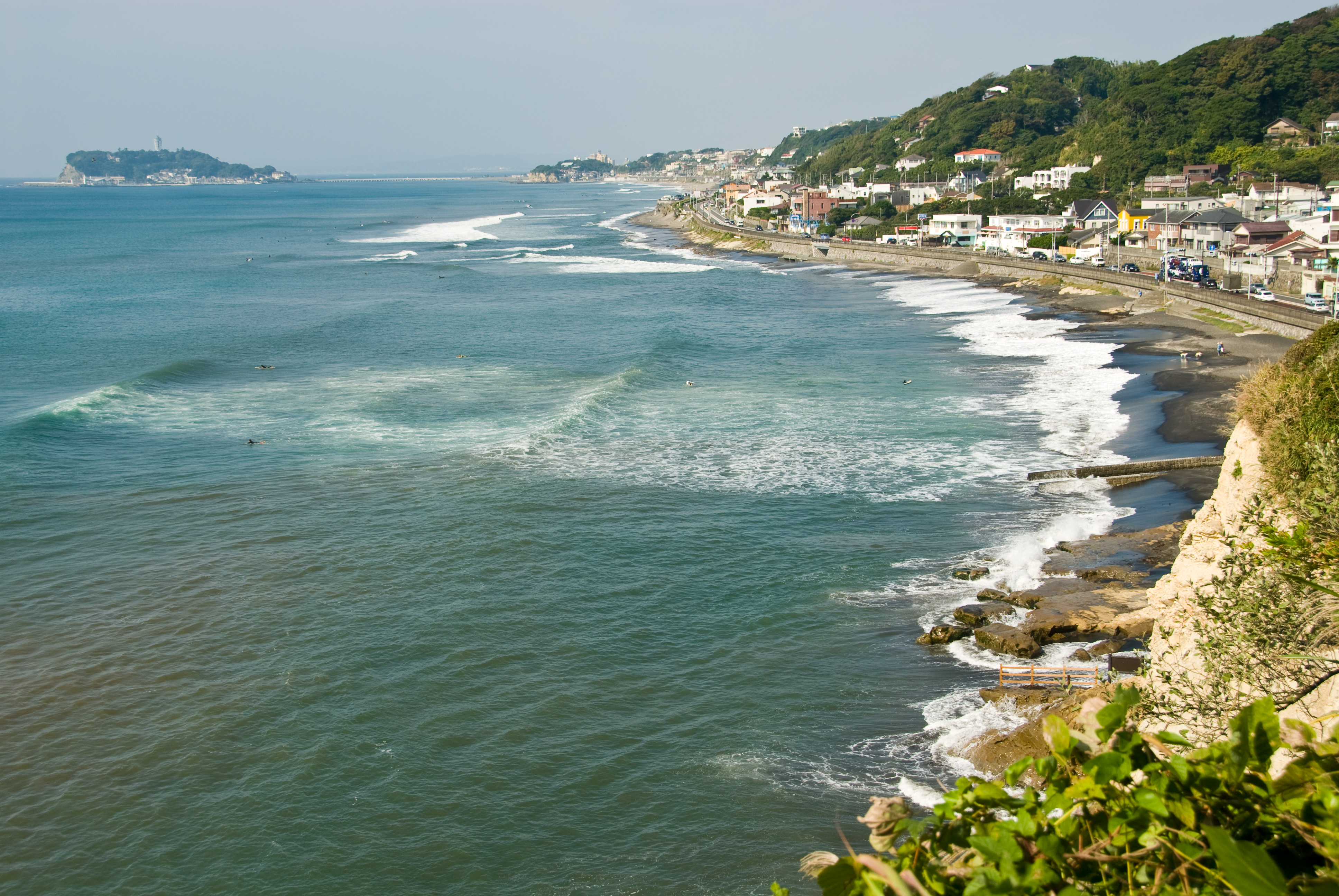 Shichirigahama and Enoshima seen fromInamuragasaki